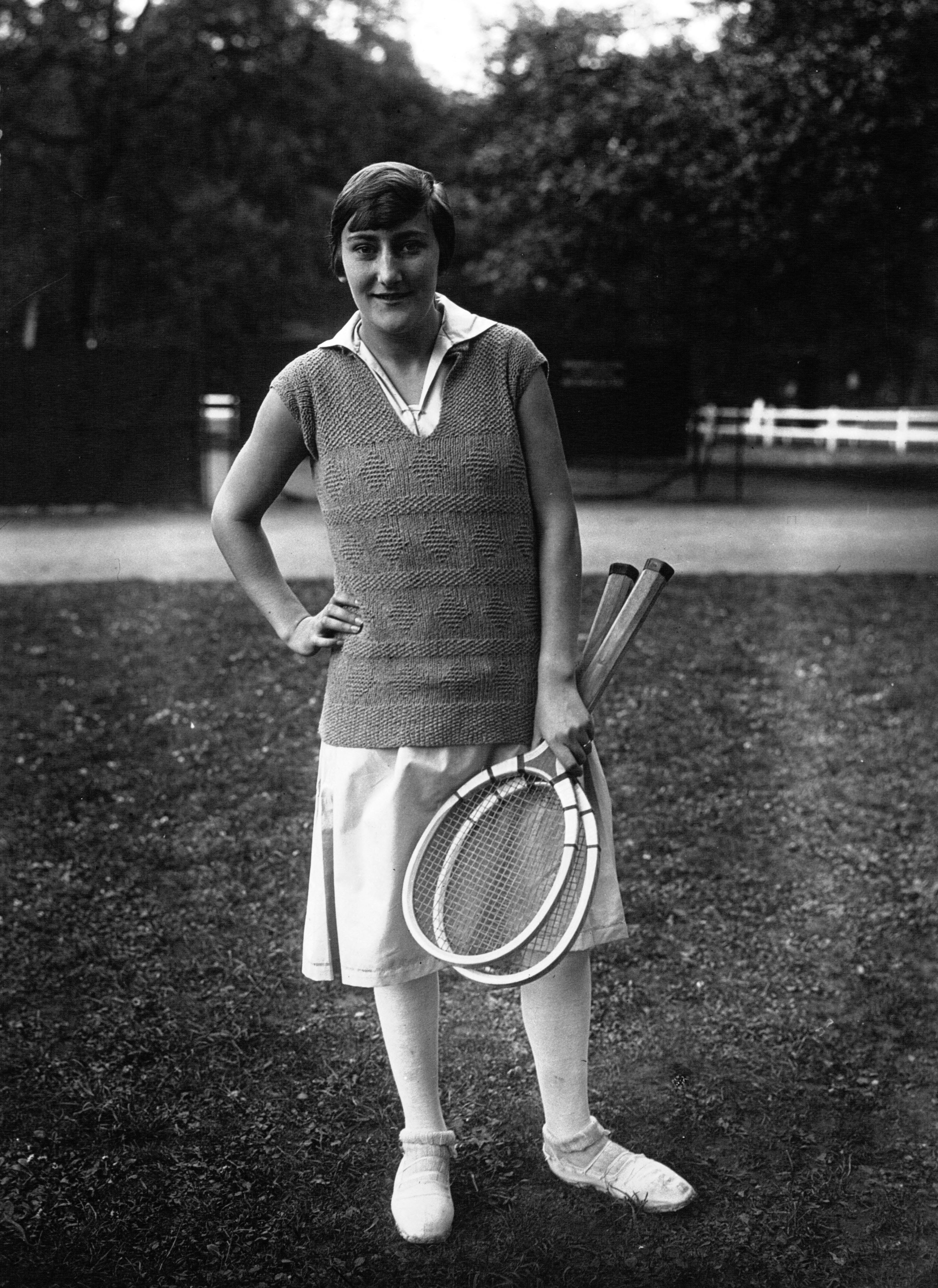 French tennis player Simonne Mathieu at the international championships played at the Racing Club in Paris in 1926.